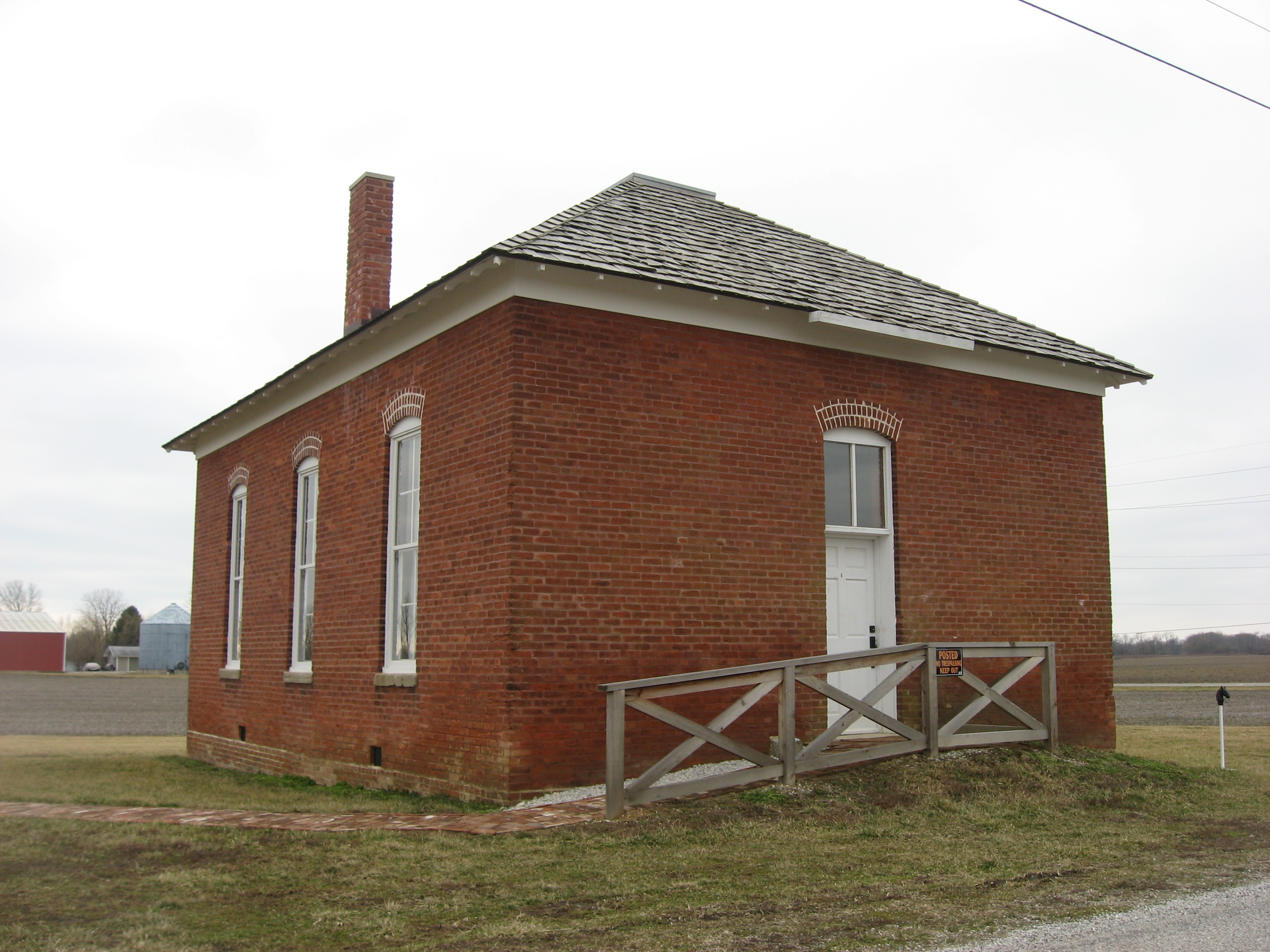 Eastern side and front of the former Howard School, located at 4555 E750S north of Brownsburg in Perry Township, Boone County, Indiana, United States. Built in 1881, it is listed on the National Register of Historic Places.